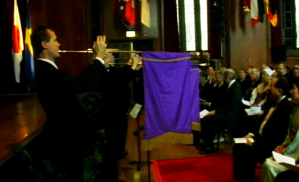 Waiting for Robin Hood